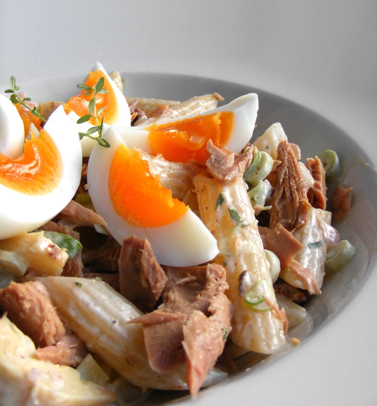 Pasta, tuna, artichoke, sundried tomato, egg, spring onion. Dressing of mayo, shallot, limejuice, thym, pepper, salt. I prepare everything first (dressing, draining, chopping, etc) and then in the end I put everything together. For pasta for two just mix together: 150-200g penne, drained, quickly rinsed with cold water, so it's still warm, but cold is okay too. 1 can of artichoke hearts, cut into small 1 x 2 cm pieces. dressing of 3 T mayo 2 t limejuice 1 shallot, chopped finely 1 T fresh thym (although I think just using fresh basil would have been nicer) salt/pepper Mix that thoroughly, then carefully mix/fould with: 1 pot of nice tuna in oil, broken into pieces 5 pieces of sundried tomatoes in oil, chopped in 1 x 0.5 cm pieces 2 spring onions, sliced thinly Divide over 2 bowls, put the soft boiled egg on top. (one per person) And like I said, I think I would have preferred a big handfull of fresh basil of maybe flatleave parsley.